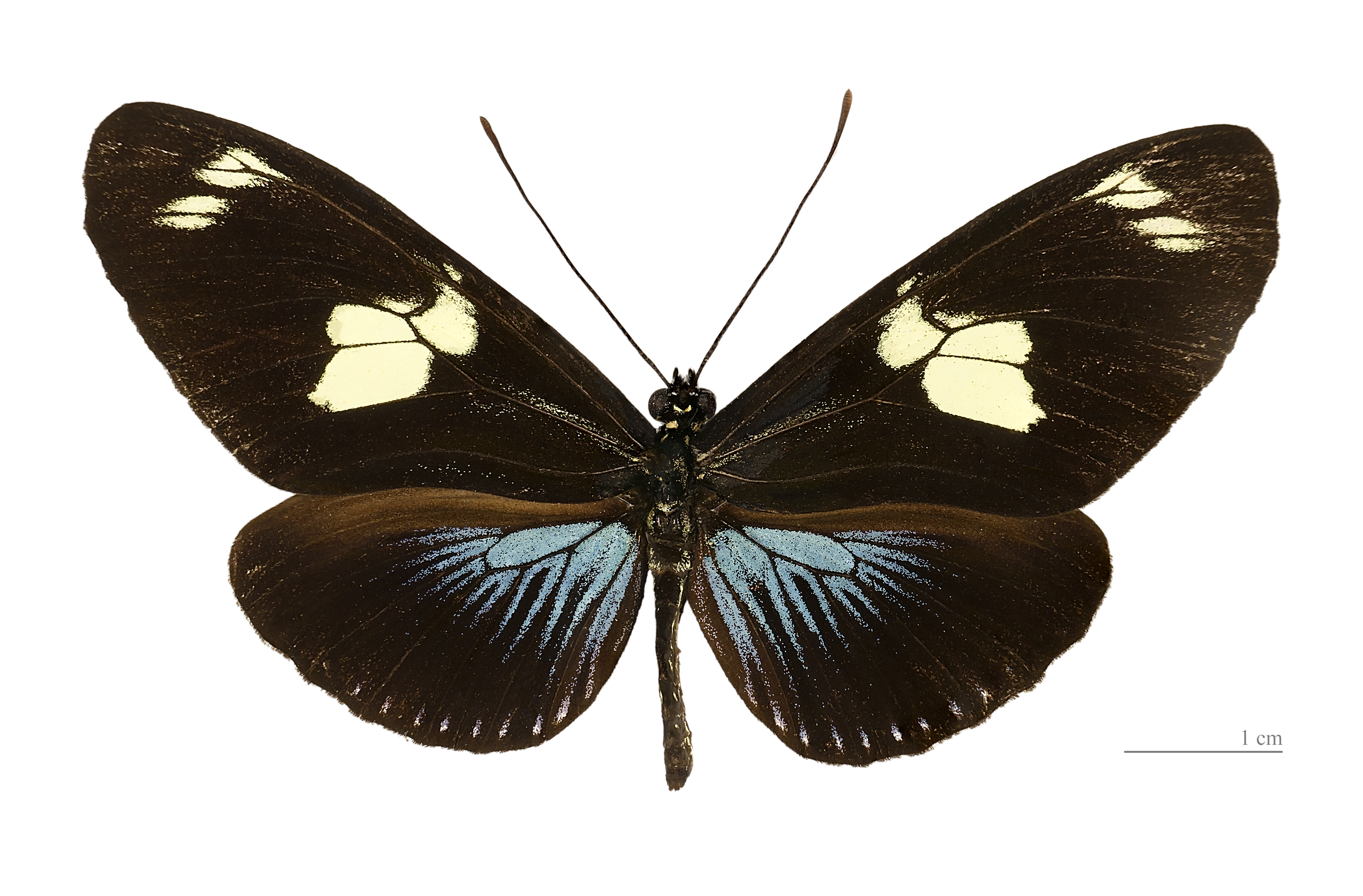 Doris Longwing - Dorsal side